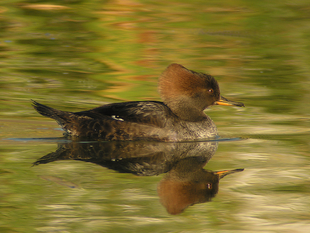 The Hooded Merganser (Lophodytes cucullatus) female has a stunning crest, which she is not shy about using to attract the male. Mergansers around here seem to prefer smaller bodies of fresh water, rather than open expanses. This lady was strutting her stuff at Gem Pond in Mill Valley, which is located behind the Sewer Treatment Plant at the end of Sycamore Avenue in Mill Valley. The dense foliage around the pond makes for nice reflections. Have also seen the males there, and will show them separately.